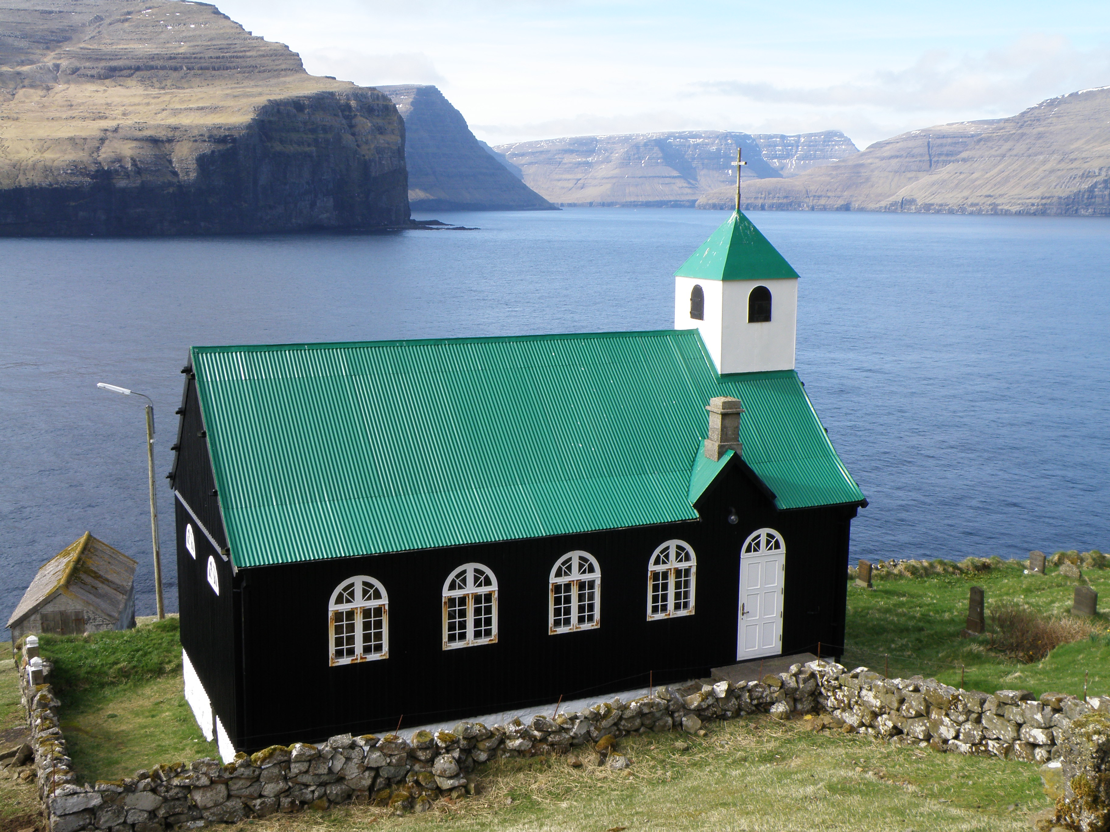 The Church of Kirkja on Fugloy island in the Northern Islands, Faroe Islands. The name of the village Kirkja means Church. This church was built and ready to use in 1933. Føroyskt: Kirjan á Kirkju á Fugloynni varð vígd í 1933. Luis Zachariassen teknaði kirkjuna, hann hevði gomlu føroysku trækirkjurnar sum fyrimynd. Luis var ættaður og uppvaksin á Kirkju. Petur Pauli Poulsen var formaður fyri at laða grundina, Jóannis Kristensen í Mittúni var formaður fyri træsmíðinum. Kelda: folkakirkjan.fo